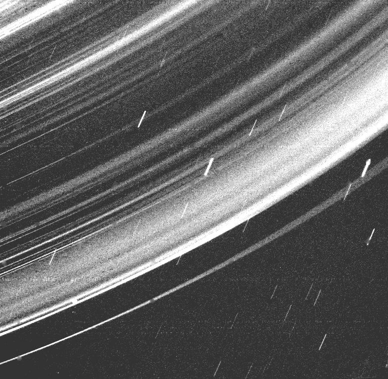 This dramatic Voyager 2 picture reveals a continuous distribution of small particles throughout the Uranus ring system Voyager took this image while in the shadow of Uranus, at a distance of 236,000 kilometers (142,000 miles and a resolution of about 33 km (20 ml). This unique geometry -- the highest phase angle at which Voyager imaged the rings -- allows us to see lanes of fine dust particles not visible from other viewing angles. All the previously known rings are visible here, however, some of the brightest features in the image are bright dust lanes not previously seen. The combination of this unique geometry and a long, 96 second exposure allowed this spectacular observation, acquired through the clear filter of Voyager's wide-angle camera. The long exposure produced a noticeable, non-uniform smear as well as streaks due to trailed stars.